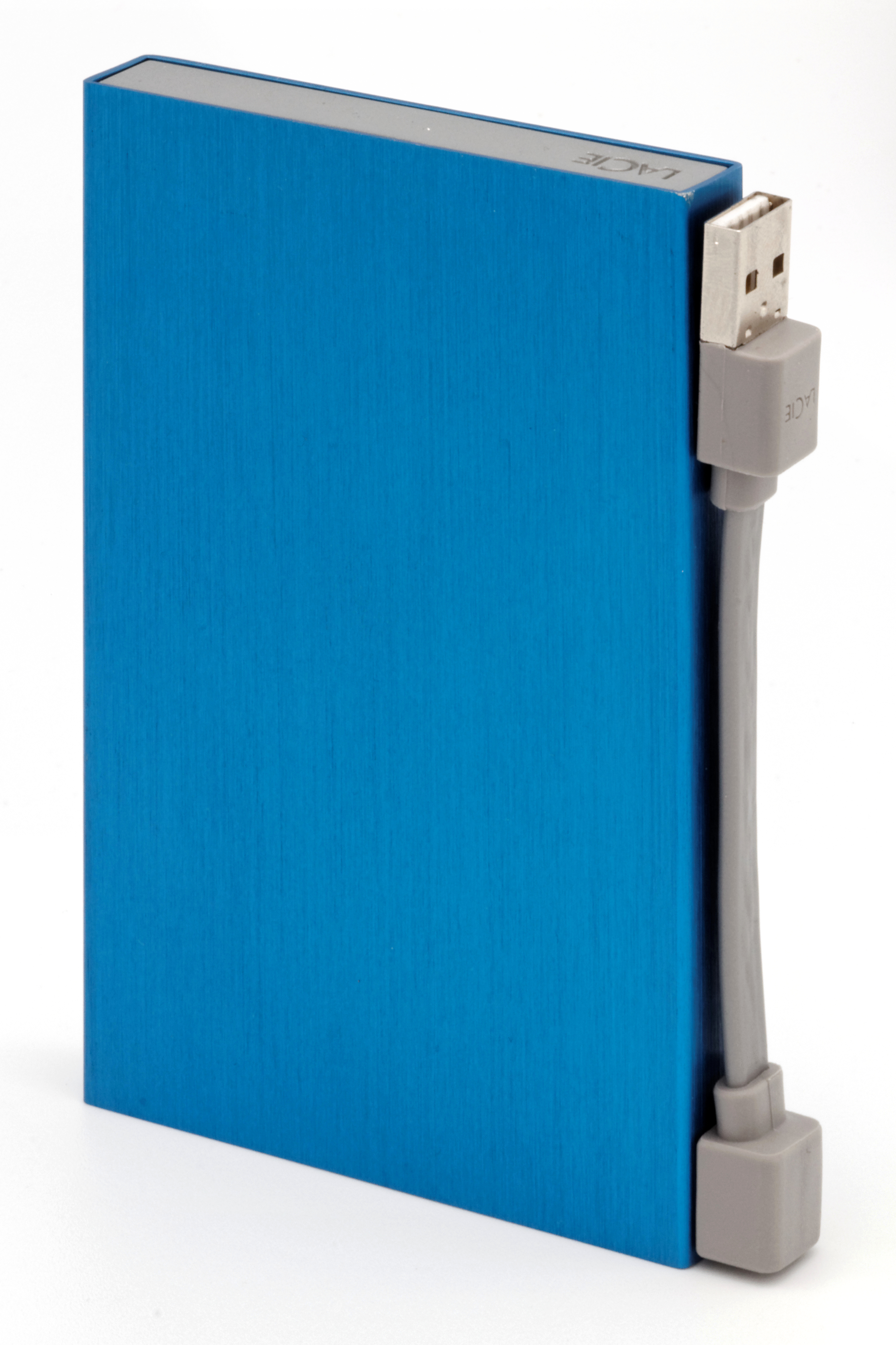 Blue external LaCie 500Go hard drive with blue brushed metal casing